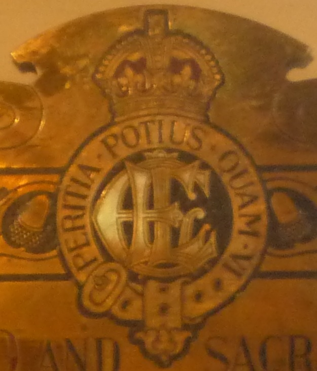 Detail of the unit's Second Boer War memorial plaque in the church of St John's on Bethnal Green